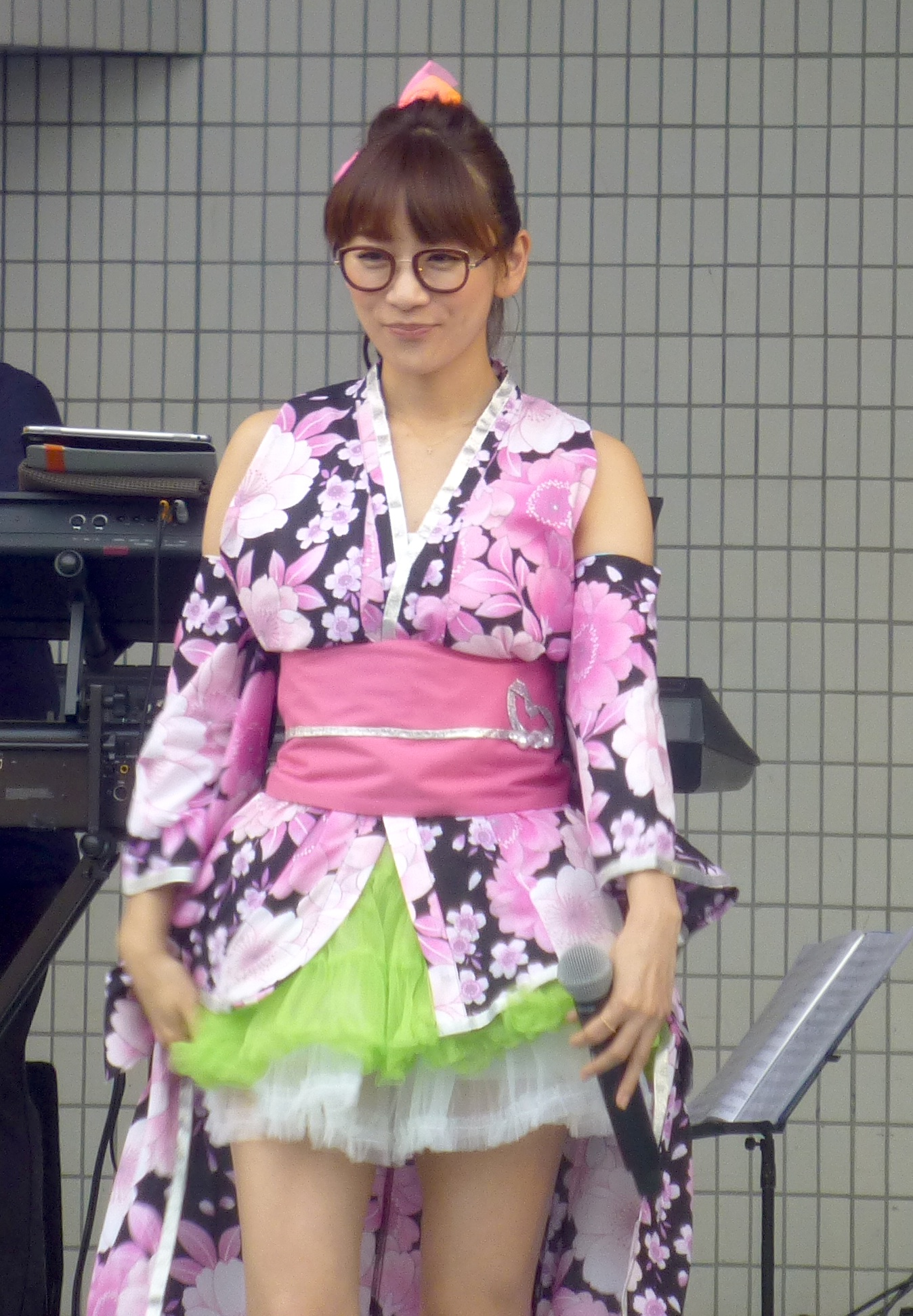 Ami Tokito (時東 ぁみ Tokitō Ami, born 25 September 1987 in Tokyo) is a Japanese pop singer and gravure idol.